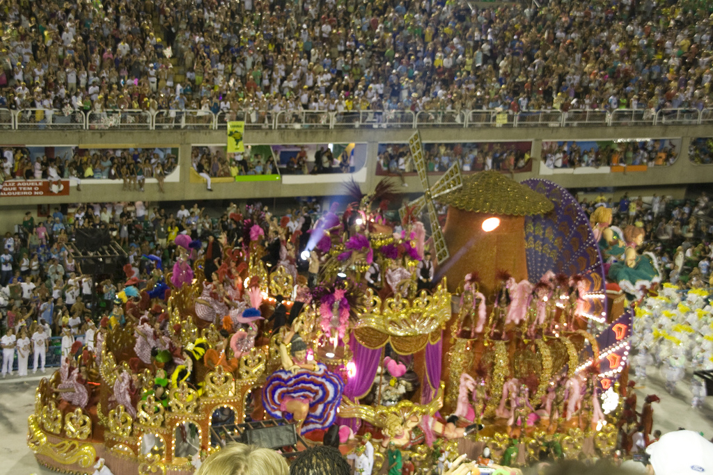 Author Tim Fearn